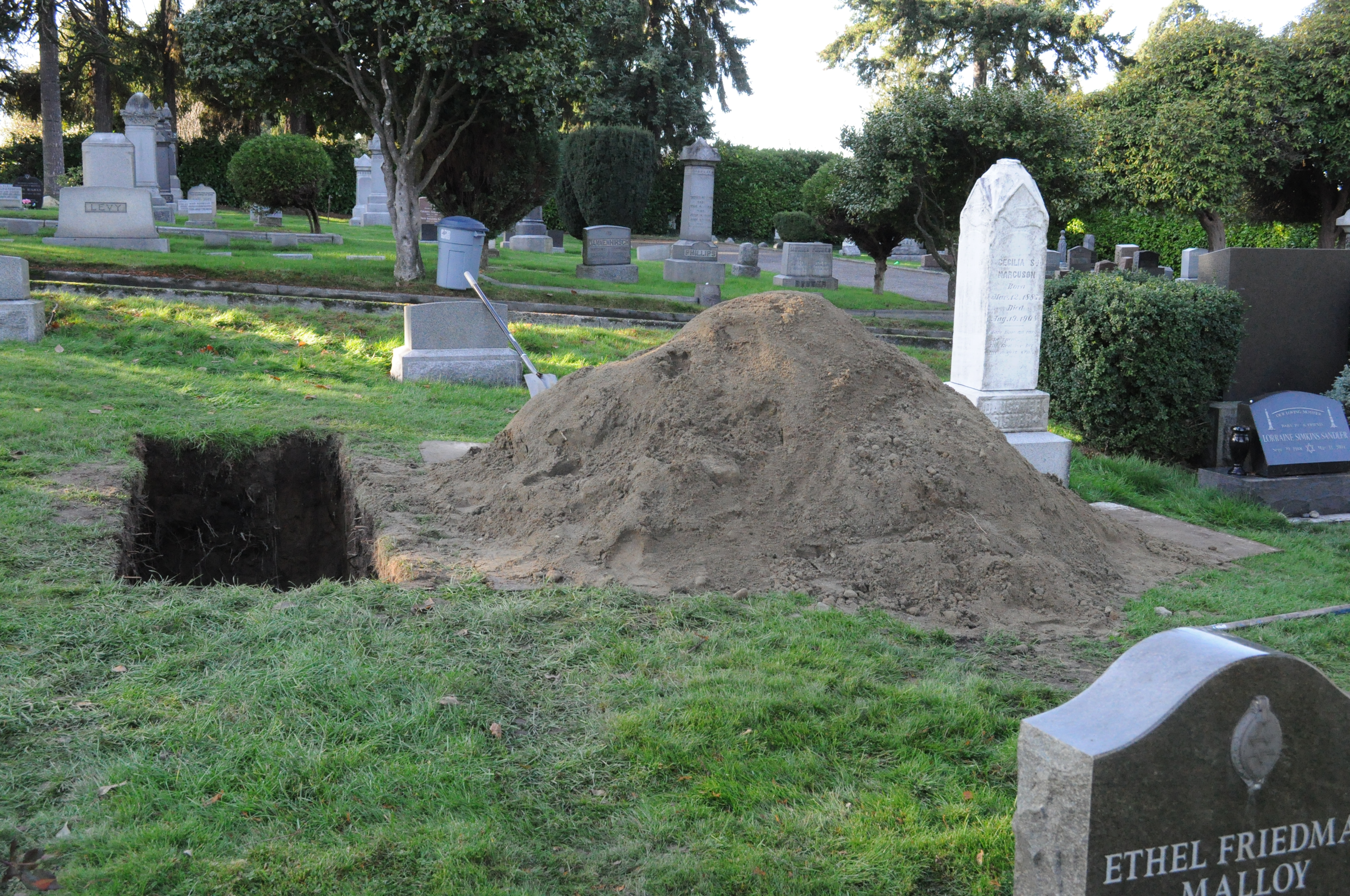 Freshly dug grave, Hills of Eternity Cemetery, a Jewish cemetery within the boundaries of Mt. Pleasant Cemetery, Queen Anne Hill, Seattle, Washington. Hills of Eternity Cemetery is associated with the (Reform Jewish) Temple De Hirsch Sinai.